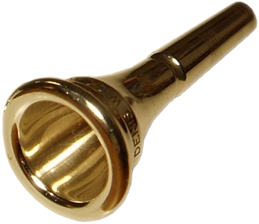 My own mouthpieces. Model Denis Wick 7N & 5N